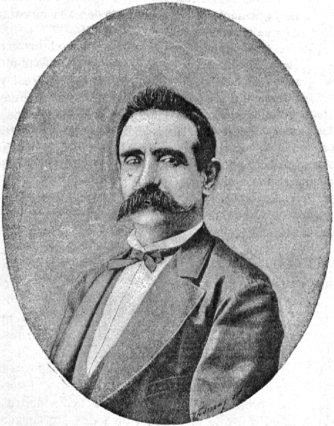 Photogravure of José Prefumo y Dodero (1831-1902), Spanish politician who was mayor of Cartagena, member of the Congress of Deputies and civil governor of the province of Madrid.